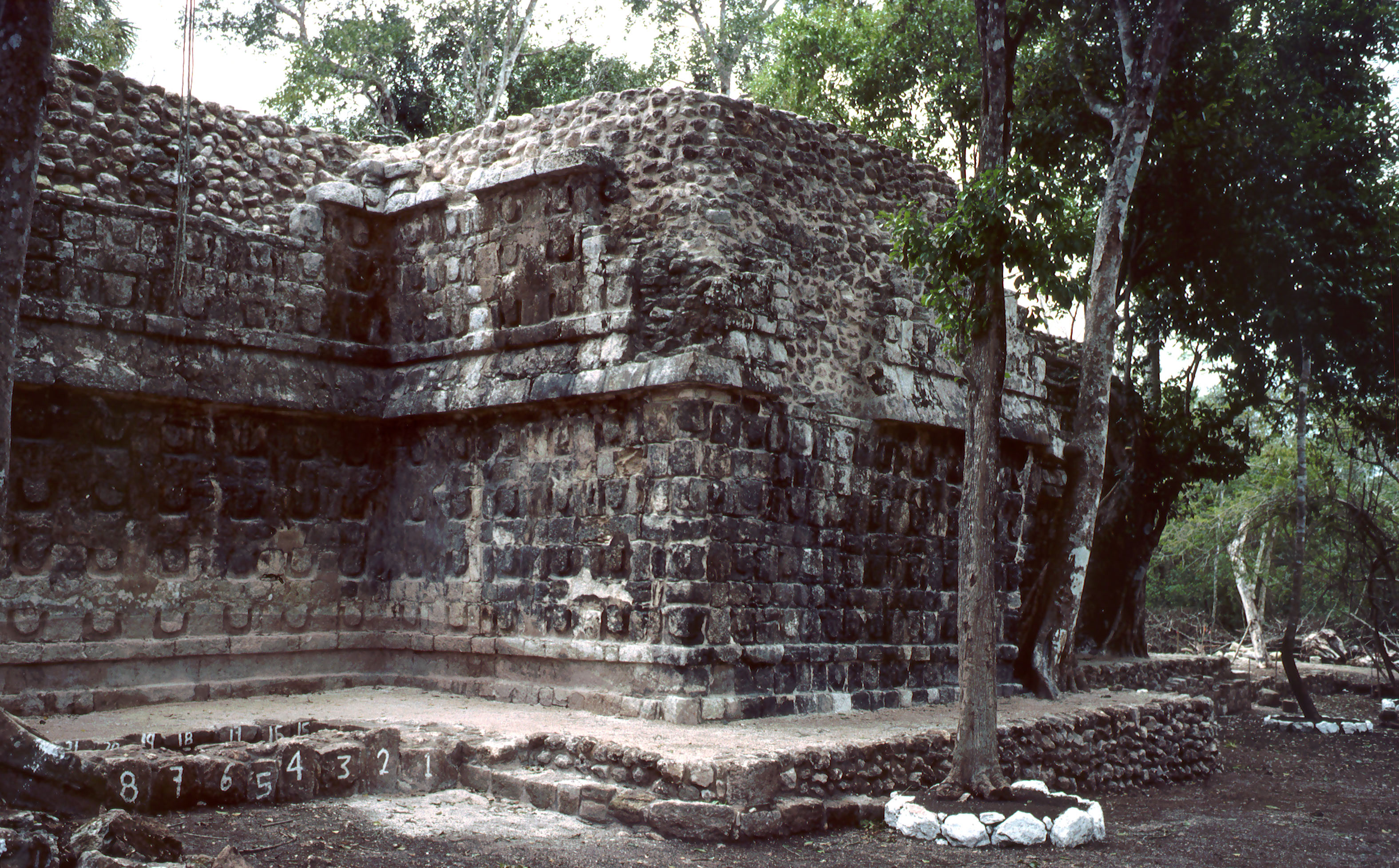 Culubá,Yucatan, Mexico: horseshoe building.